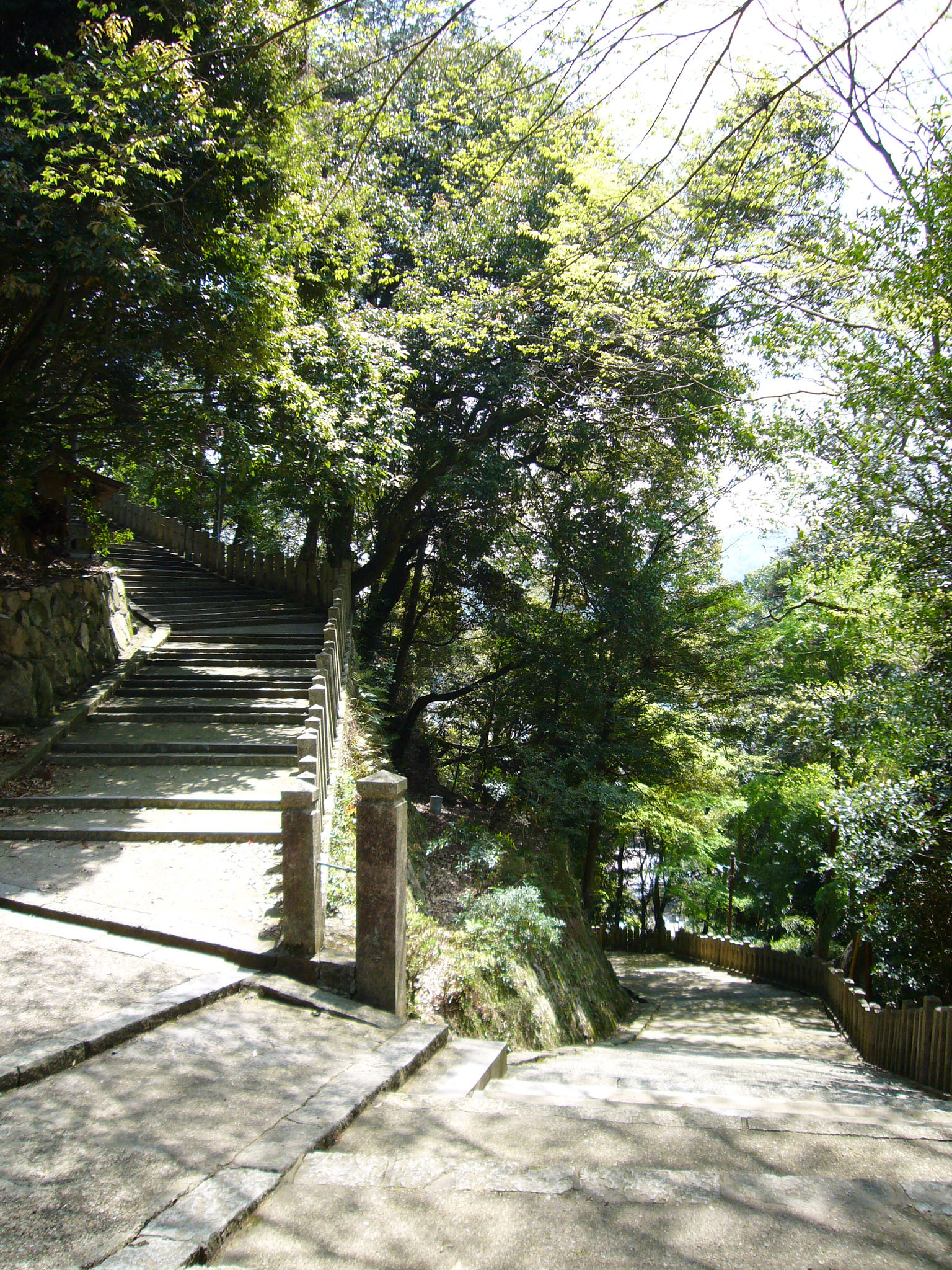 Kaibara Hachiman Jinja in Tamba, Japan